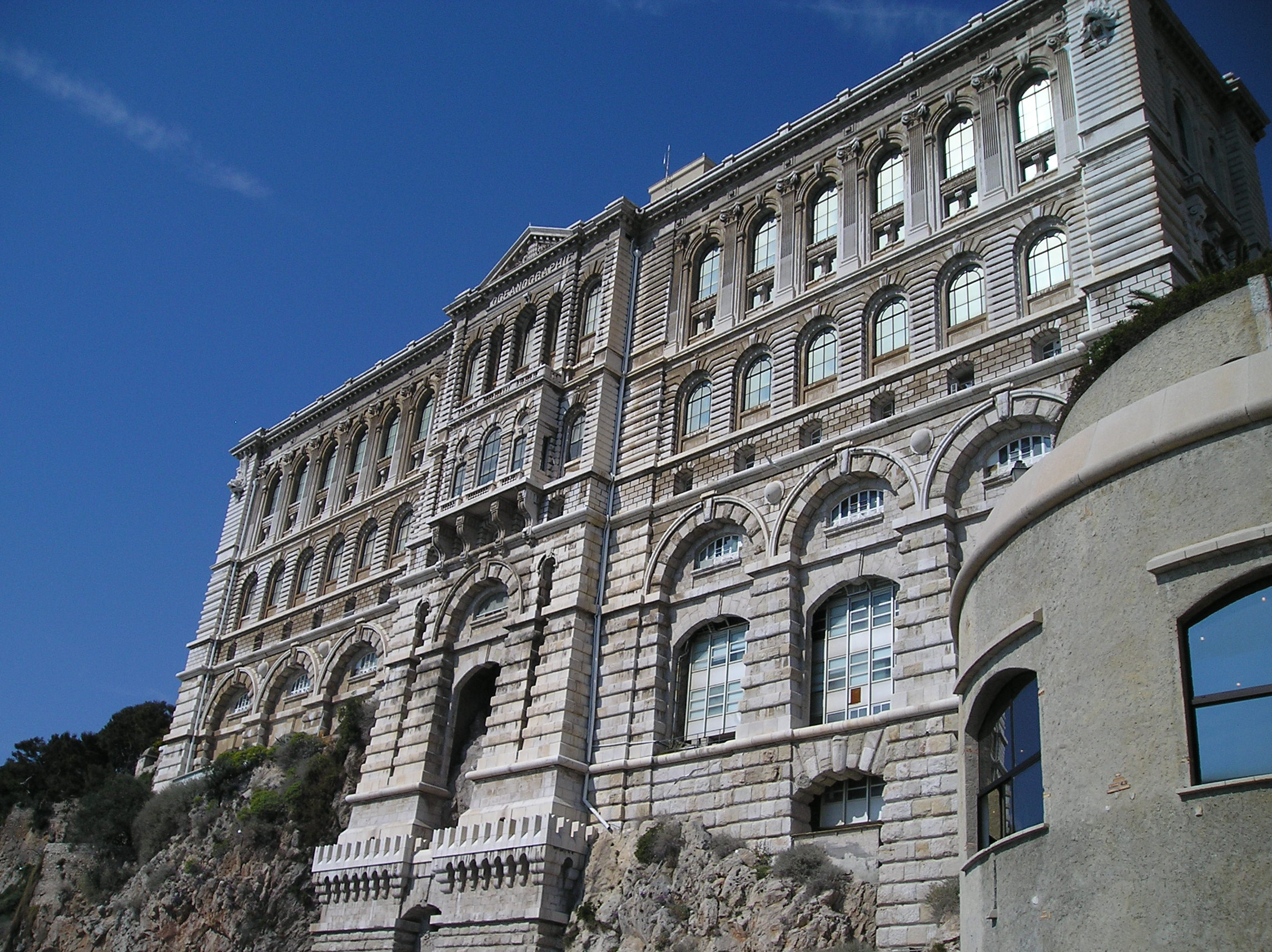 Picture of the seaward facing side of the Monaco Aquarium, taken on March 15, 2006.